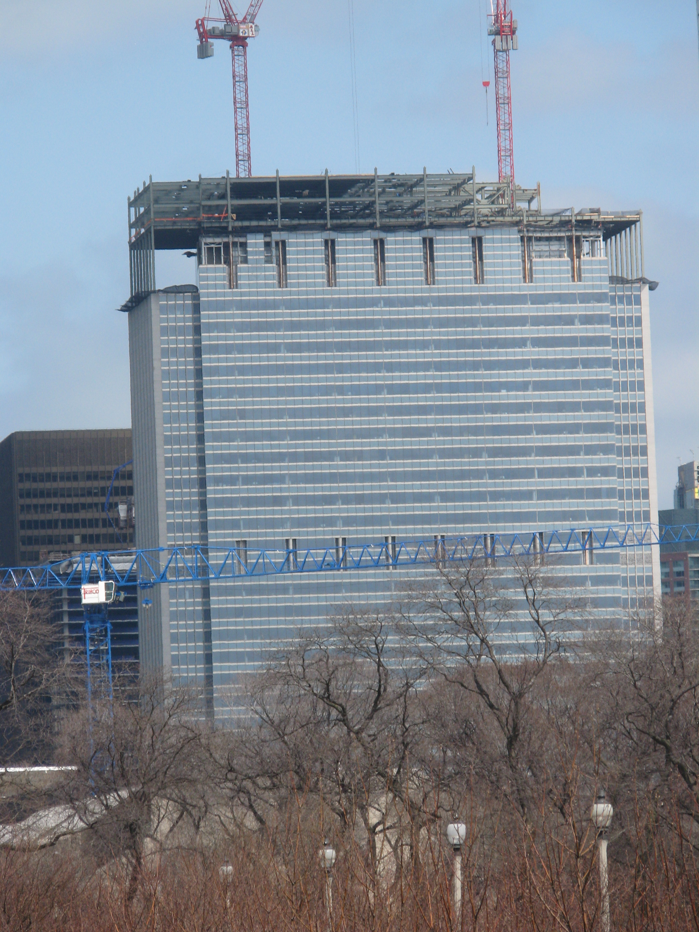 Blue Cross Blue Shield Tower